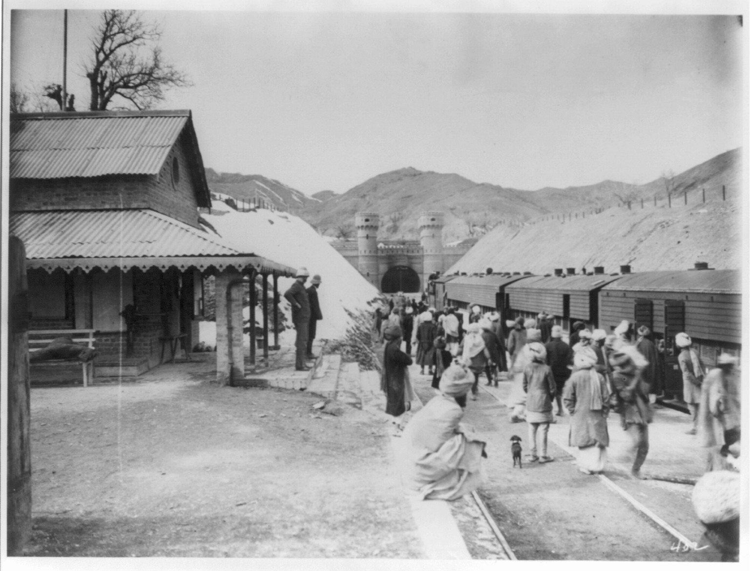 Title: Gulistan Station on the Great Military Railway, at entrance to Kojak Tunnel Physical description: 1 photographic print : gelatin silver ; 8 x 10 in. or smaller. Notes: Forms part of: Jackson, William Henry, 1843-1942. World's Transportation Commission photograph collection (Library of Congress).; Published as halftone in Harper's Weekly, 1895, p. 868.; Gift; Colorado Historical Society; 1949.; Photographic print made by LC from Jackson's vintage film negative.